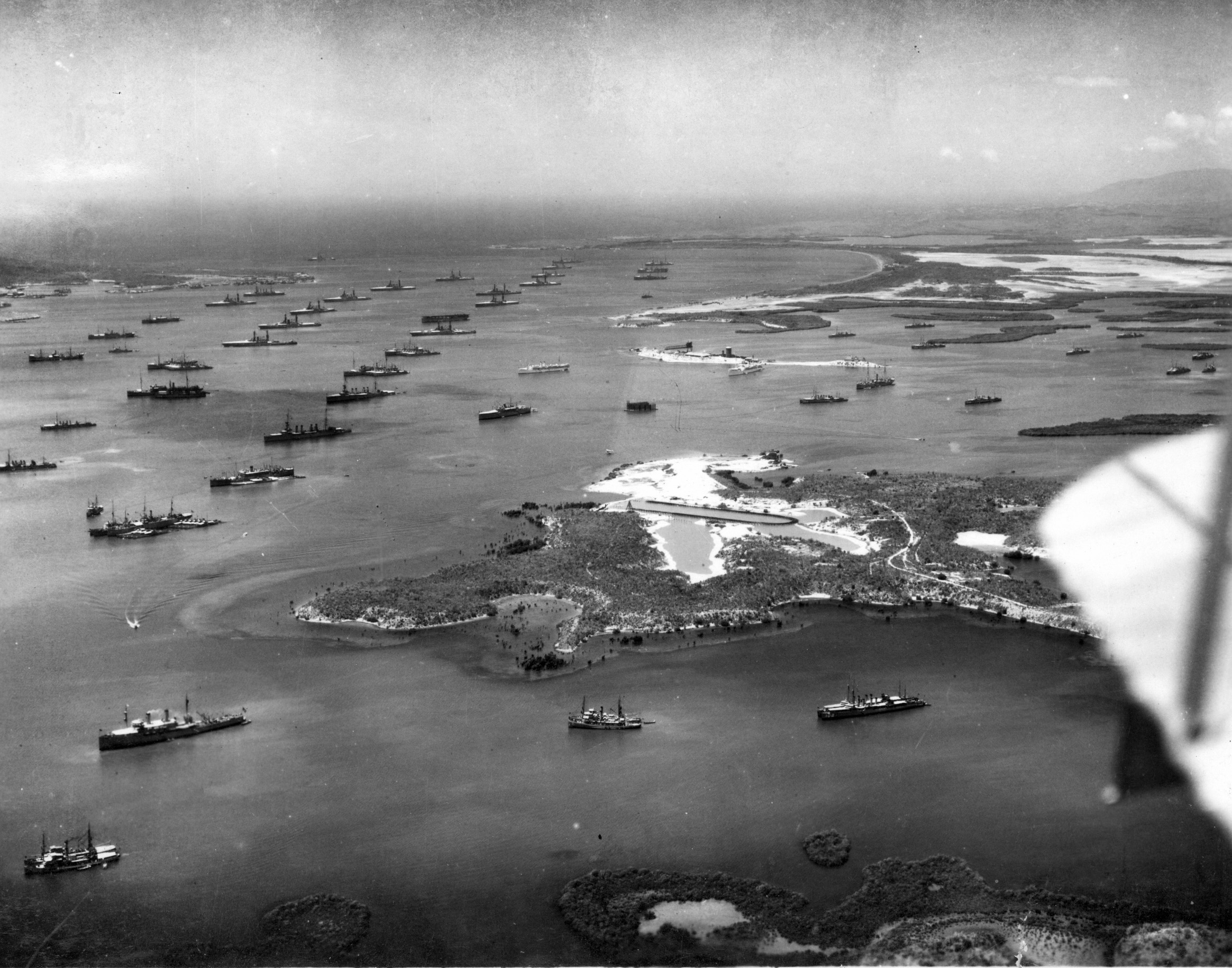 Ships of the U.S. Fleet pictured at anchor at Guantanamo Bay, Cuba, during winter exercises in 1927. Visible amidst about 15 battleships at the top of the photograph is the aircraft carrier USS Langley (CV-1). Also visible are two Omaha-class cruisers, at least 17 destroyers, and two submarine tenders in the foreground with about 10 smaller and two large submarines. The peninsula in the right foreground is South Toro Cay, where the drydock is still visible that was begun in 1904, but cancelled two years later.